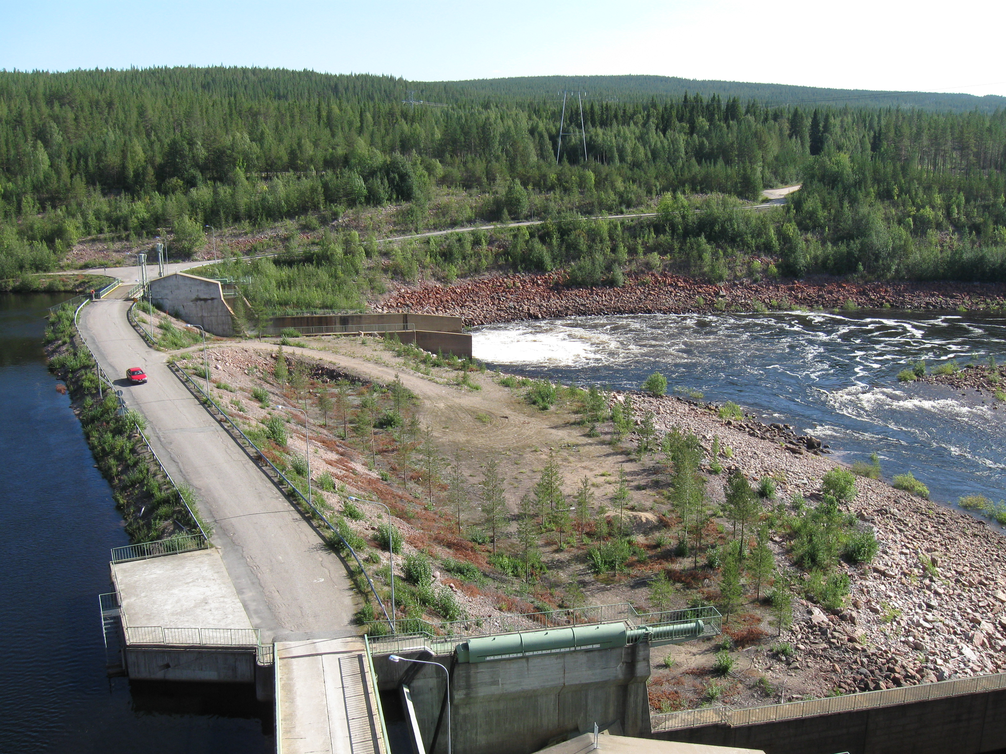 The Pirttikoski hydroelectric tunnel power plant area in the Kemijoki river in Rovaniemi, Finland.